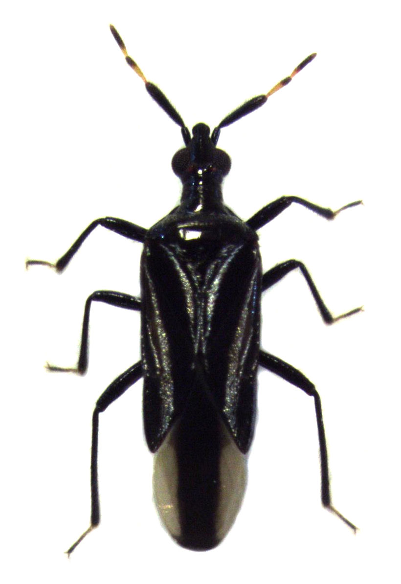 Macrotrachelia nigronitens (Stål, 1860), adult male (length about 3 mm).